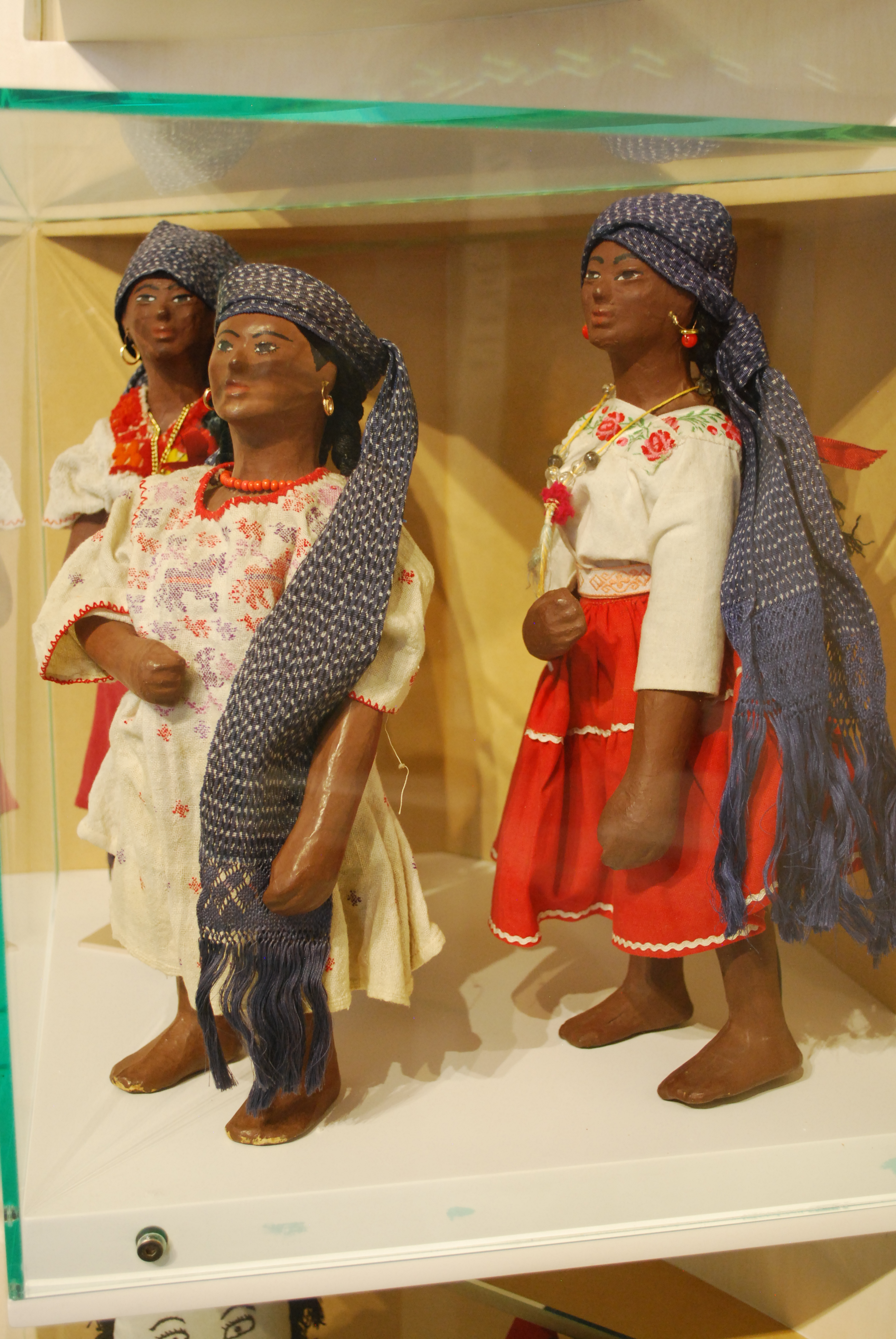 1970 clay figures of women from the city of Oaxaca representing the Zapoteca culture at the Centro de Desarrollo Artesanal Indígena in Santiago de Queretaro